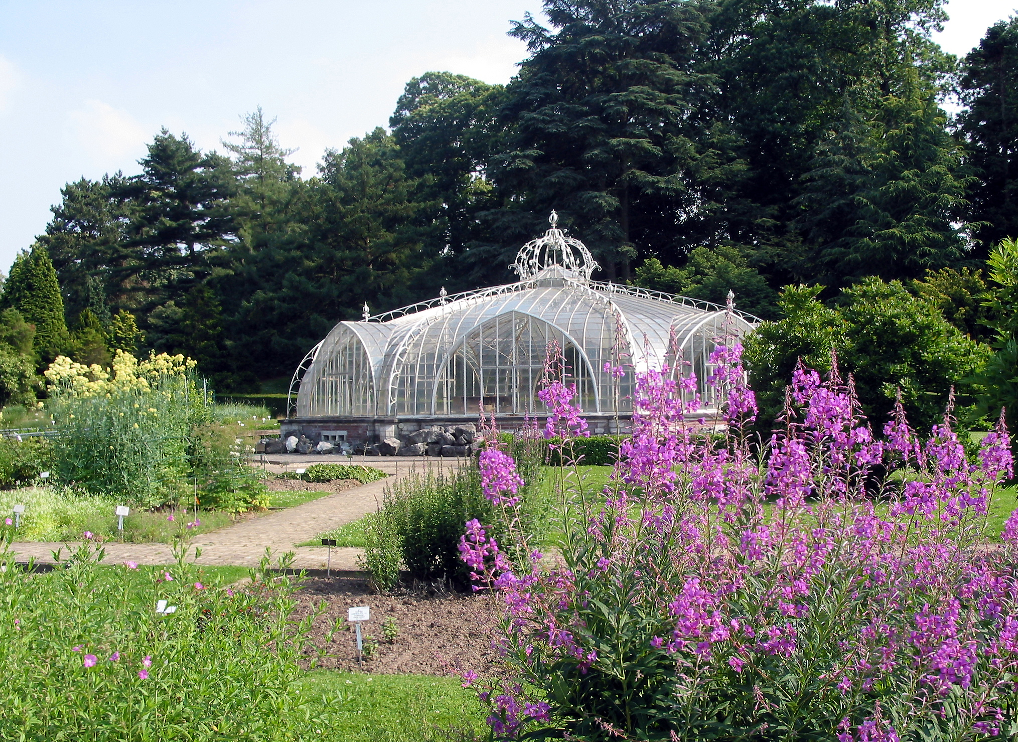 Meise (Belgium), National Garden of Belgium - Balat Greenhouse (1854).